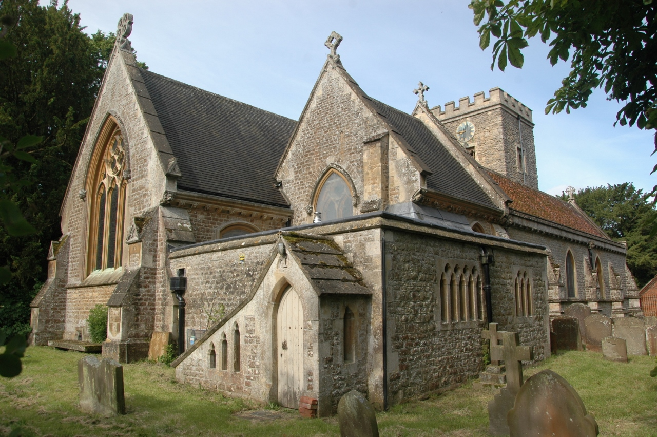 St Blaise parish church, Milton, Oxfordshire (formerly Berkshire), seen from the northeast